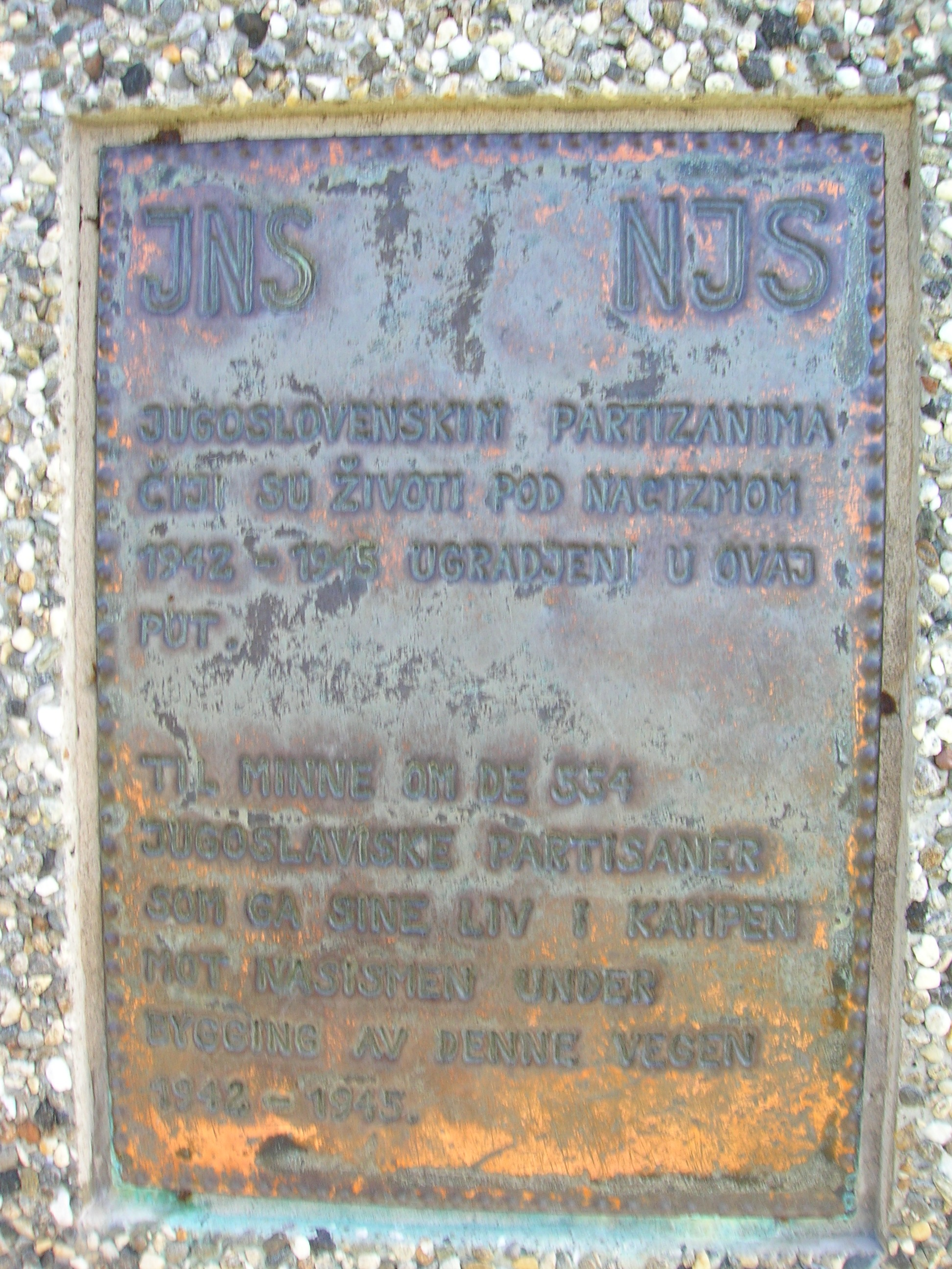 Memorial stone for Jugoslav partisans, who builded the European route over Korgfjellet, between the municipalities of Vefsn and Hemnes during World War II, as slave labour for the Nazi occupation force. Photo on Korgfjellet, Nordland county, Norway, on July 22, 2007 with a Nikon Coolpix 5600 5,1 Megapixel camera.